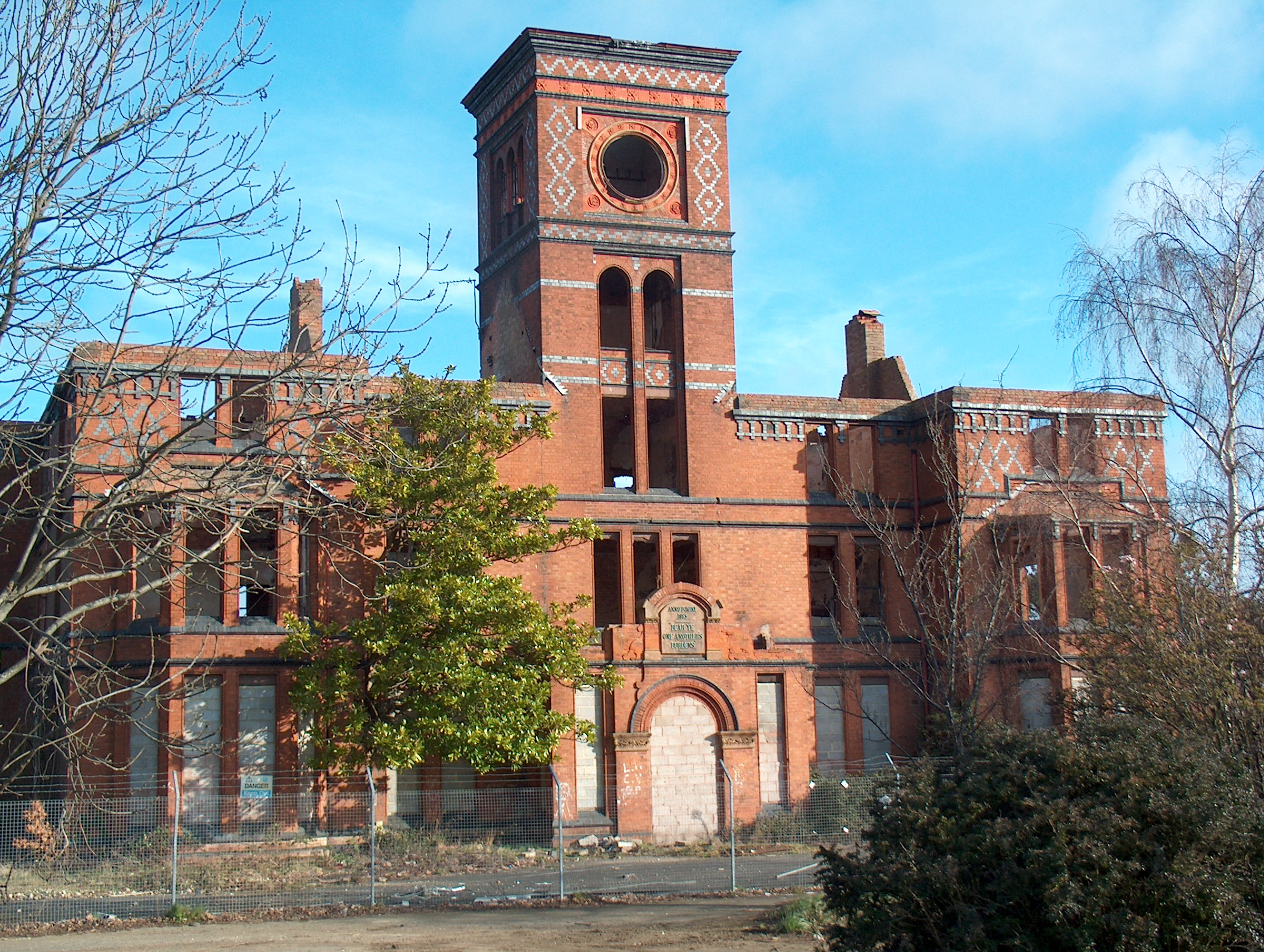 Coney Hill Hospital - Derelict This was once Coney Hill Hospital, a hospital for the mentally ill. It has been refurbished since this photograph was taken and turned into residential flats. After some of the buildings to the rear were demolished a large extension was added to provide more flats. It sits in the grounds of Clocktower Park,between Abbeydale and Abbeymead, Gloucester.